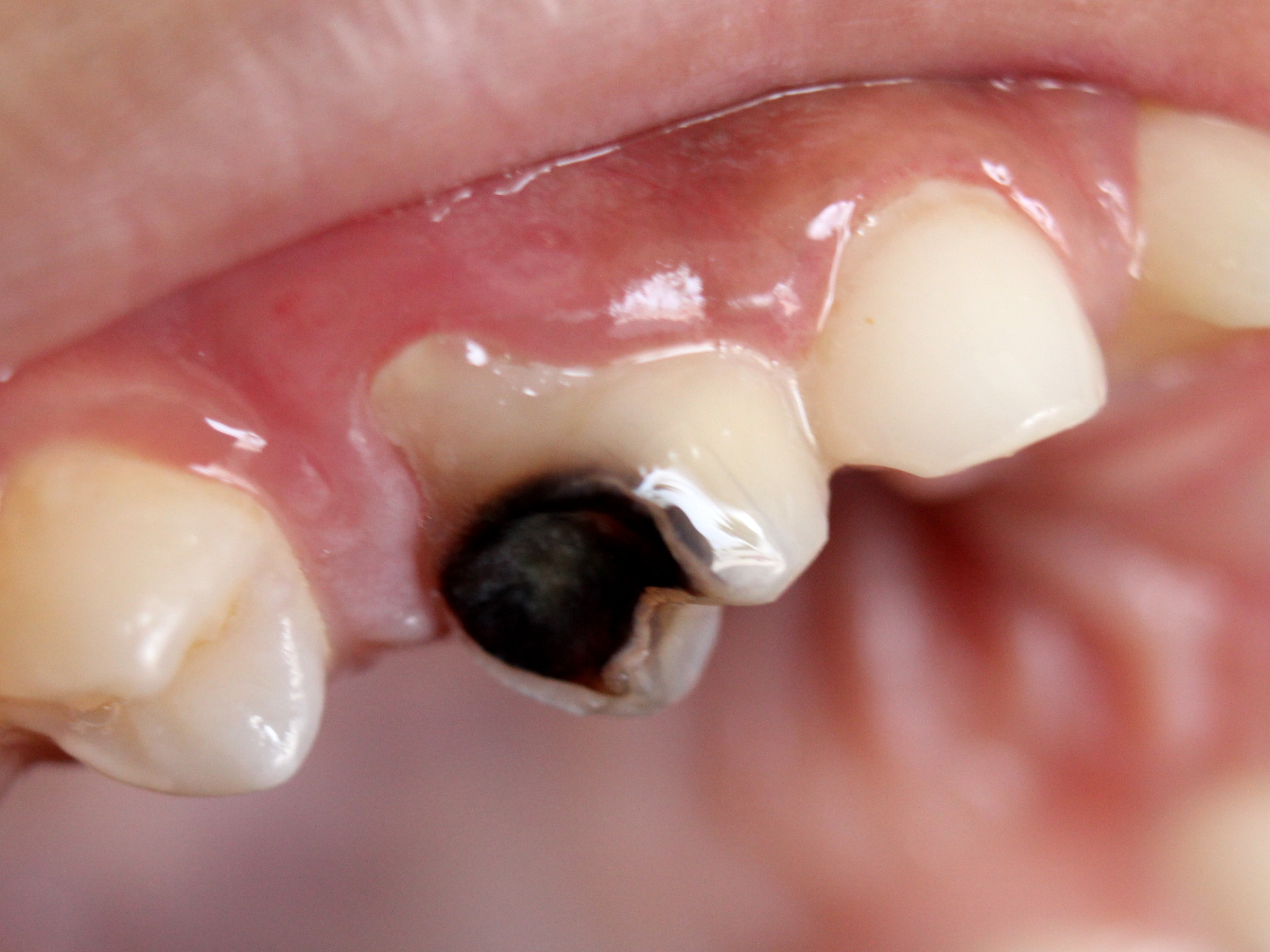 This is a cavity inside a tooth of a 10-year-old boy from India